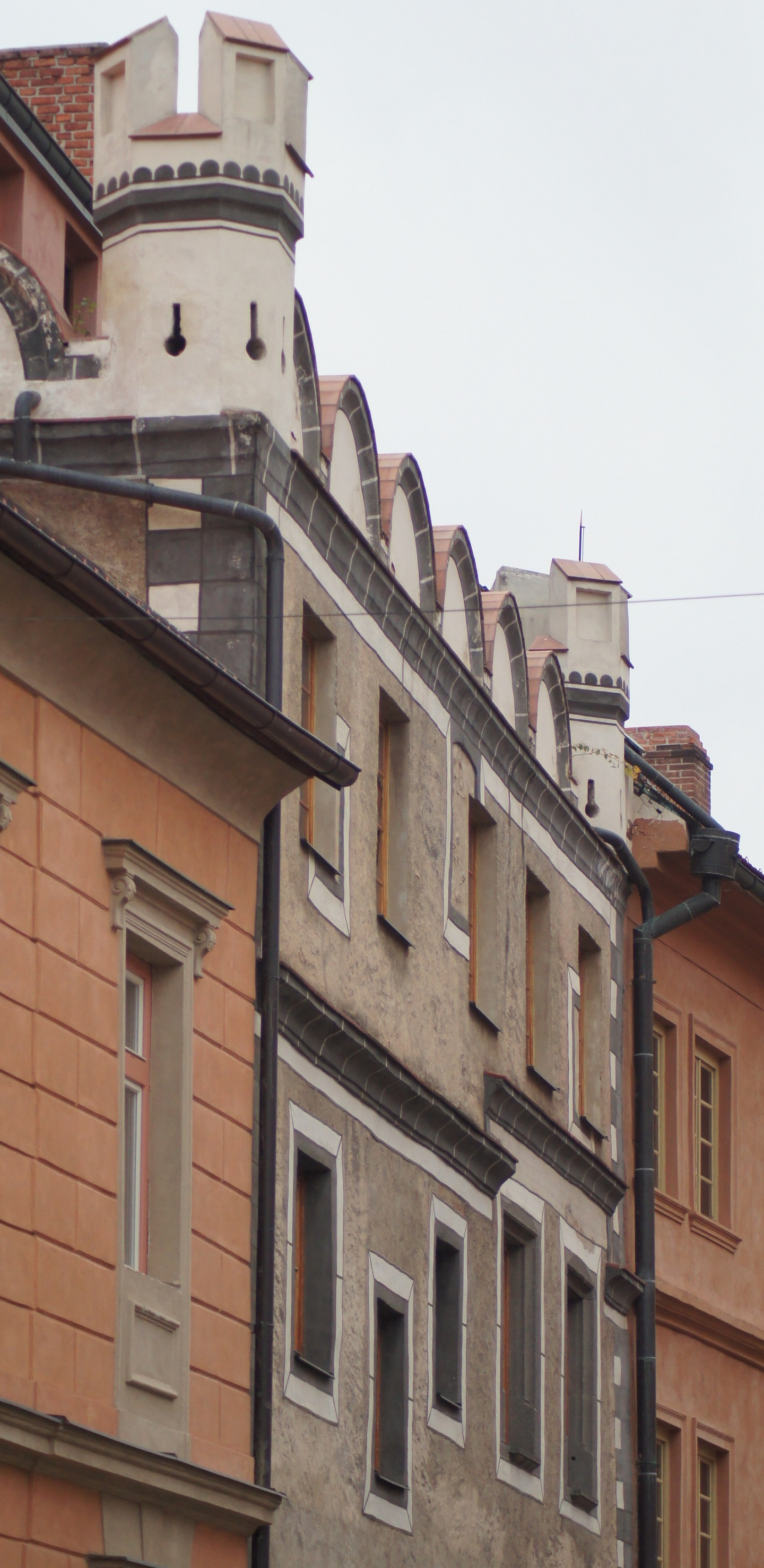 This file was obtained as part of the Editaton Prachatice 2 project.